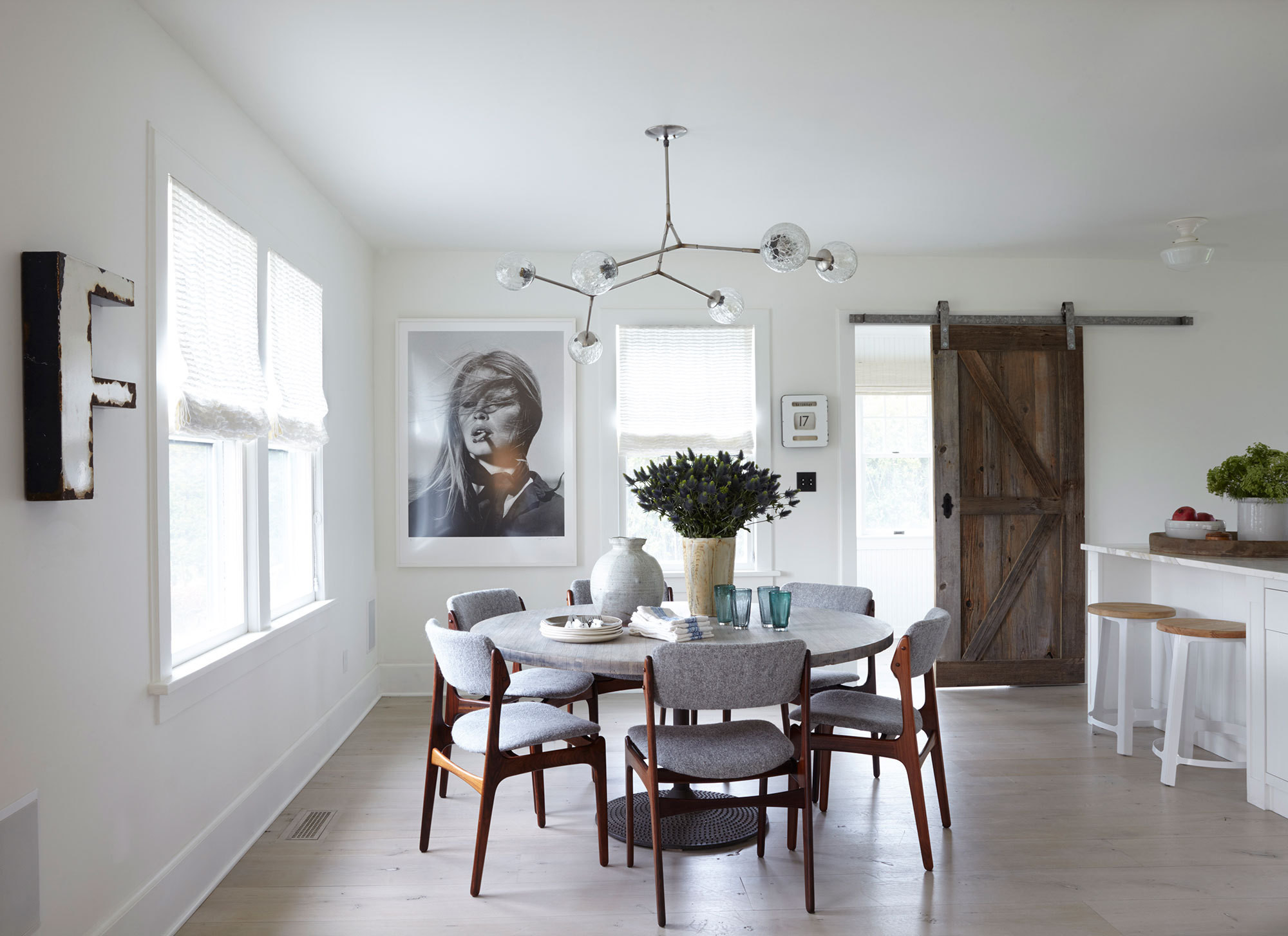 Interior of Hamptons home featuring dining table and barn door